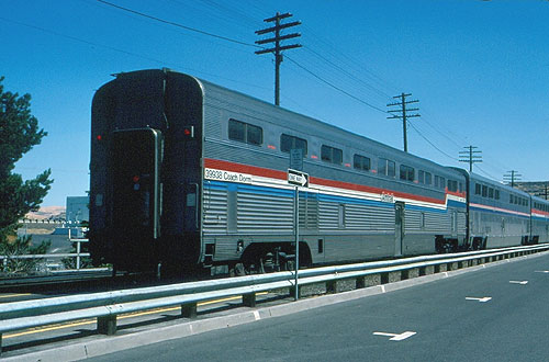 The Pioneer at The Dalles station in August 1994. On the rear is Hi-Level transition coach No. 39938.